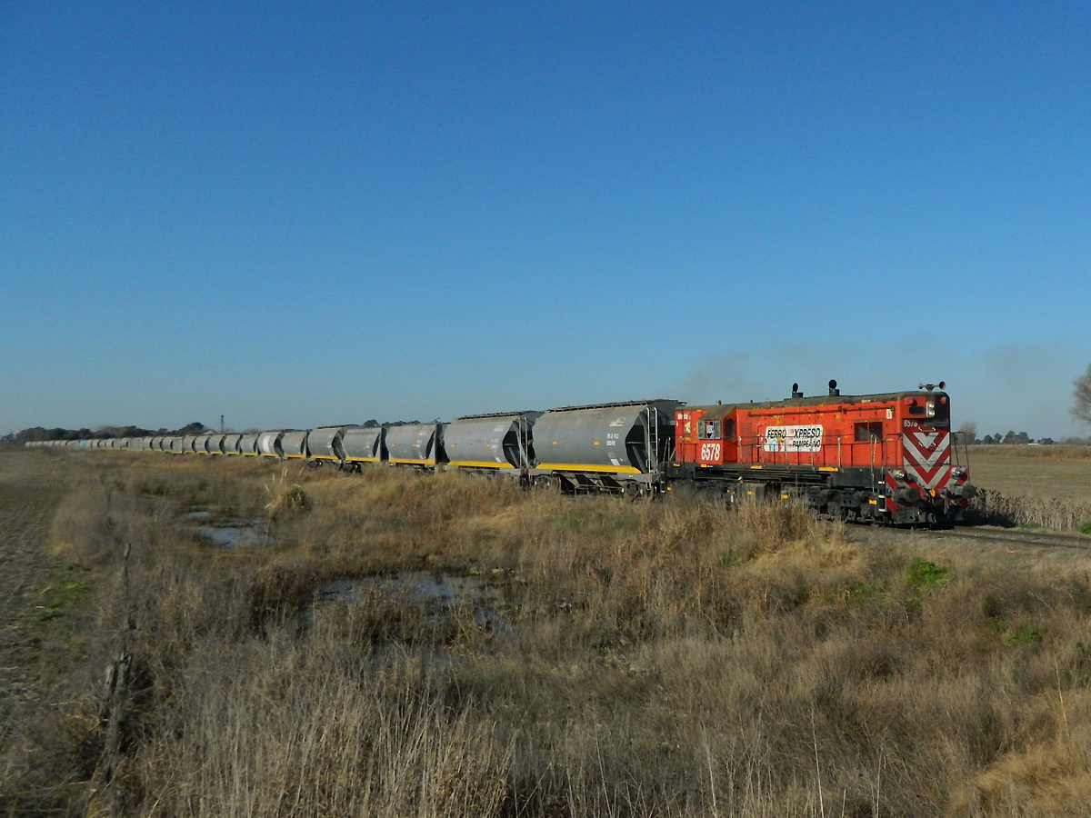 A Ferroexpreso Pampeano G12 locmotive in rural Argentina.